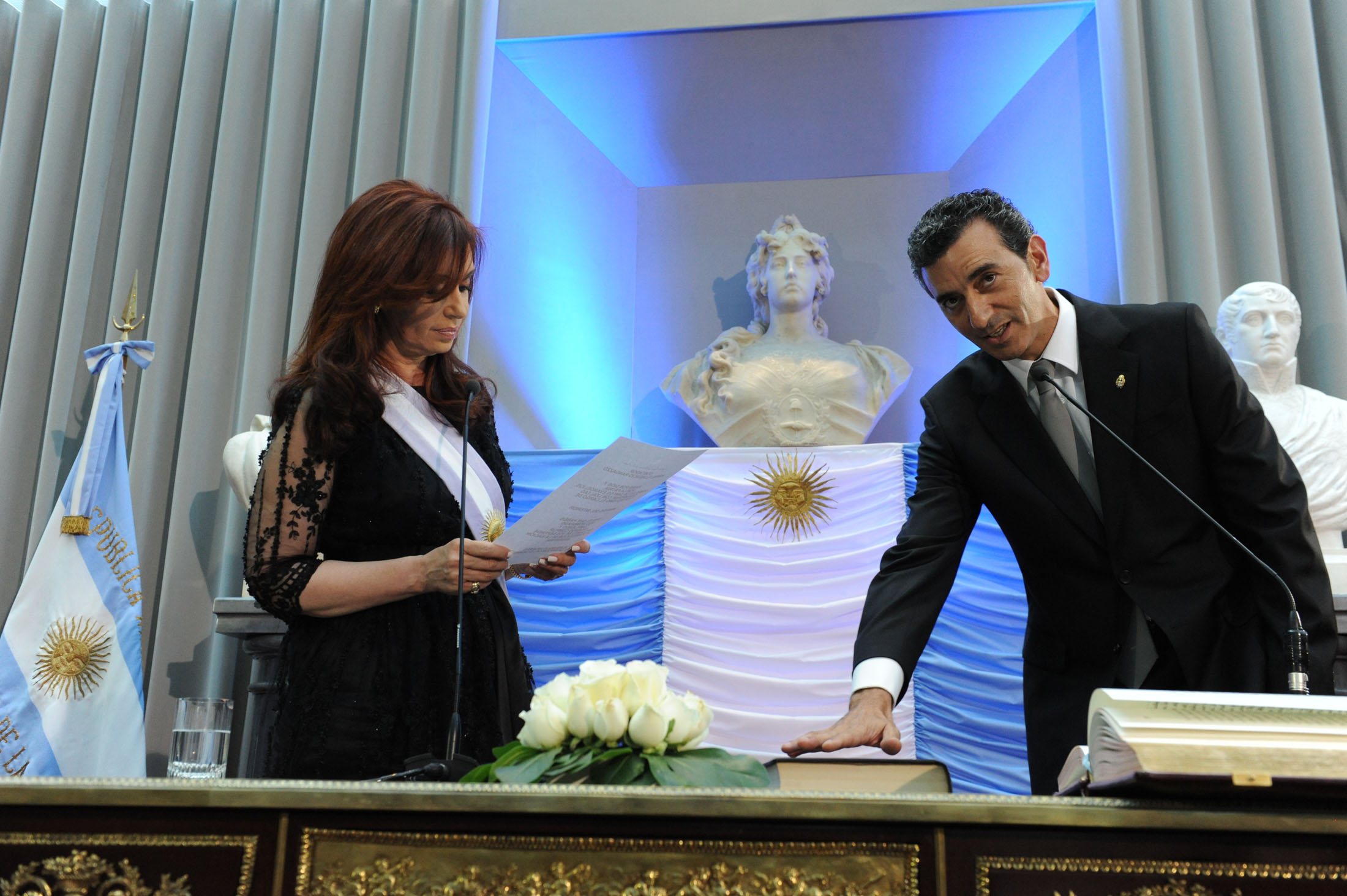 Florencio Randazzo sworns as Argentine Ministry of Interior, the 10 of December of 2011.